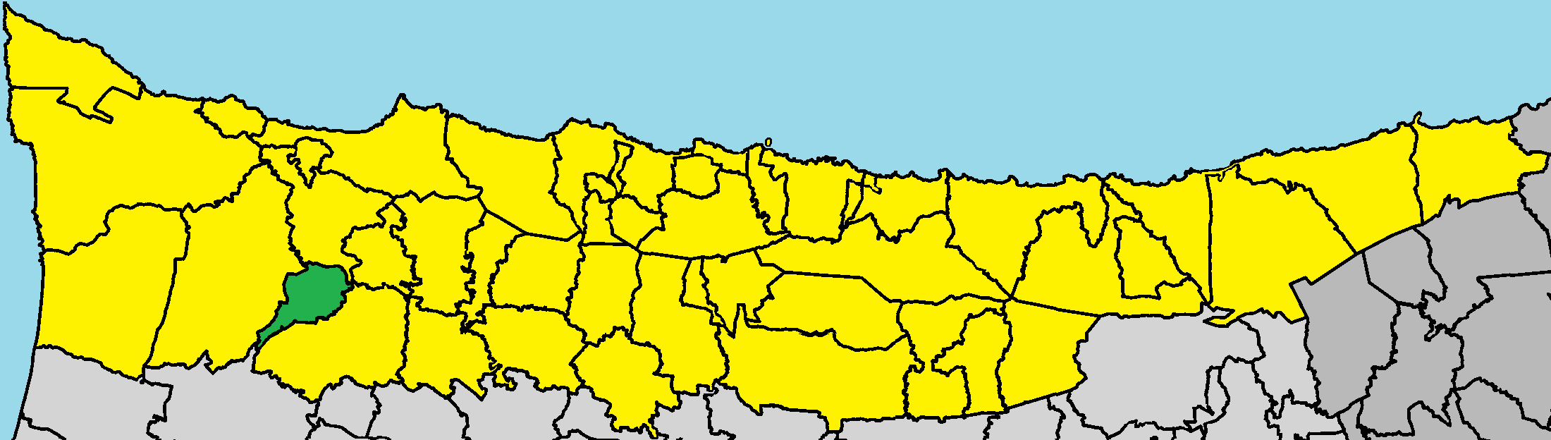 Karpaseia in Kyrenia District (de jure).